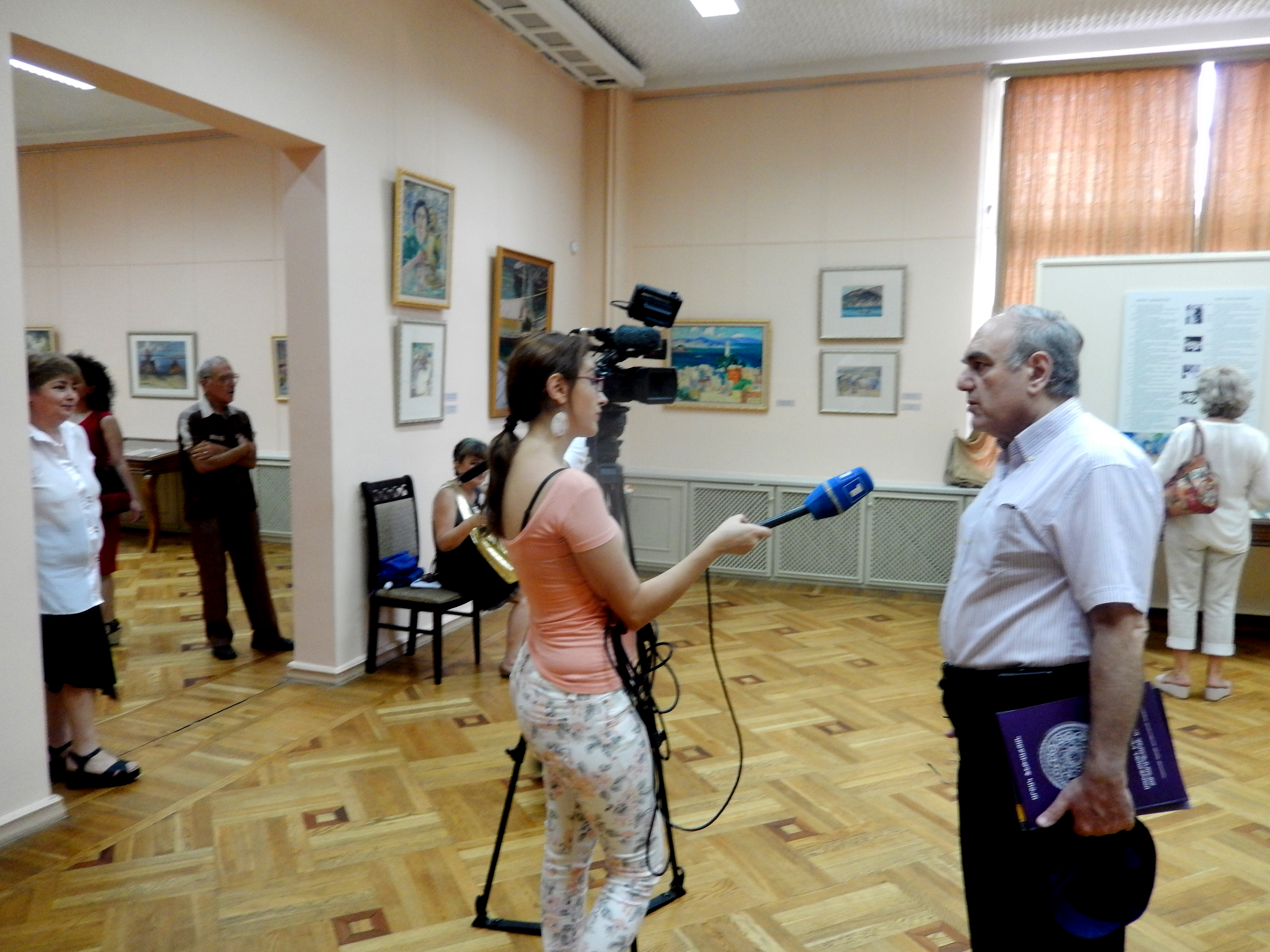 Sargis Khachatouryan-130 exhibition at National Gallery of Armenia